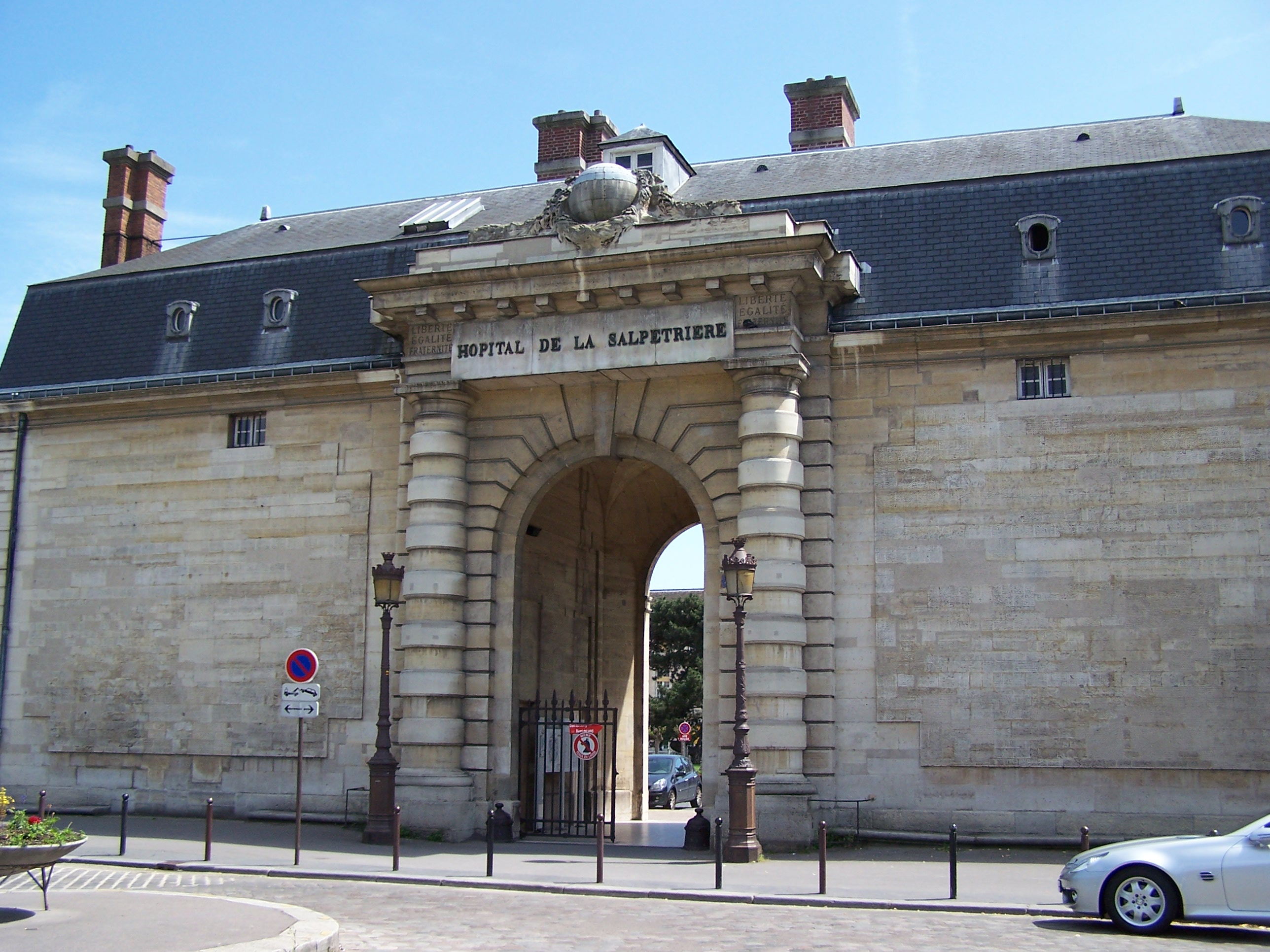 Entrance of the Hôpital de la Salpêtrière in Paris